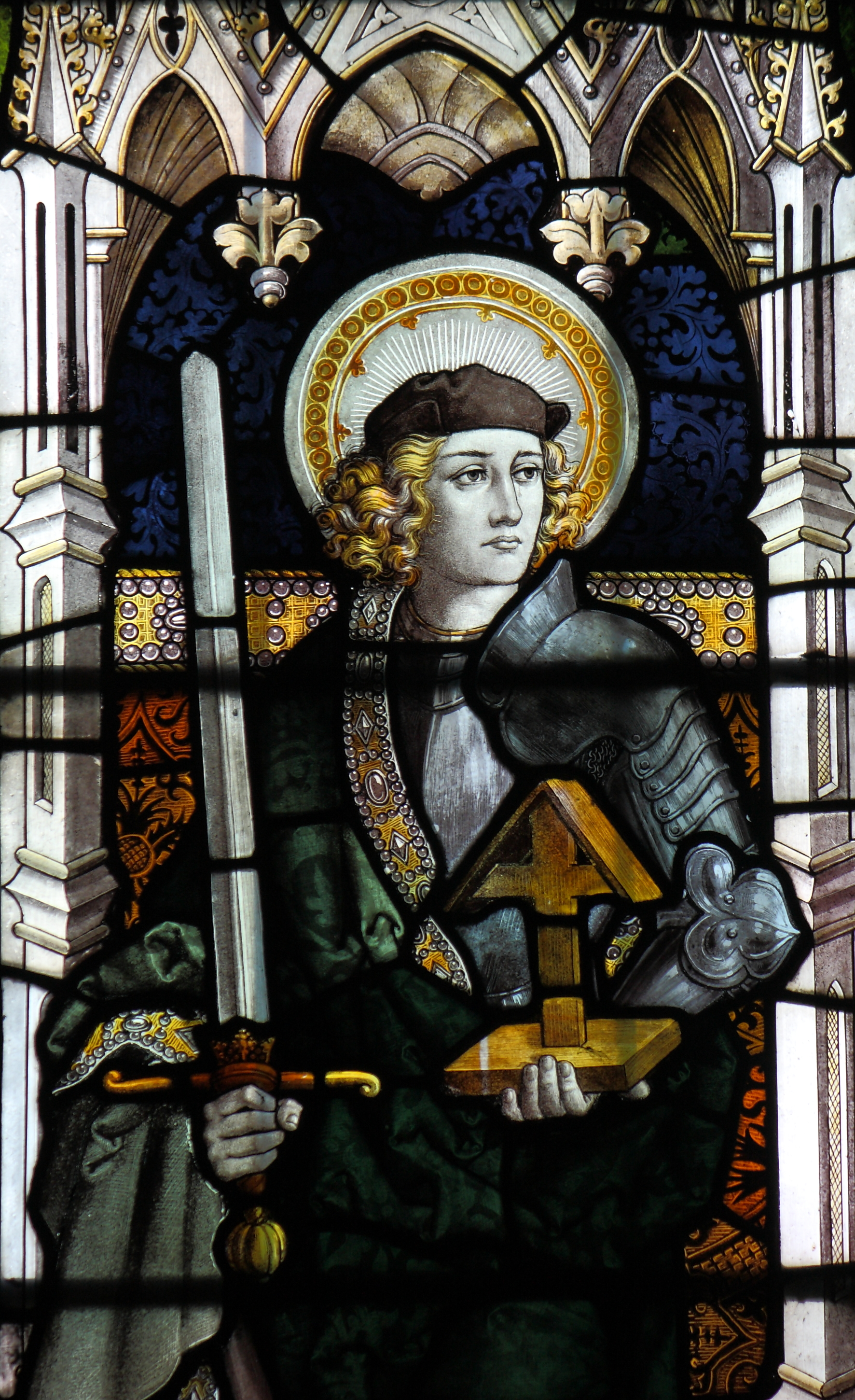 Saint Alban, St Mary, Sledmere, East Riding of Yorkshire, England.